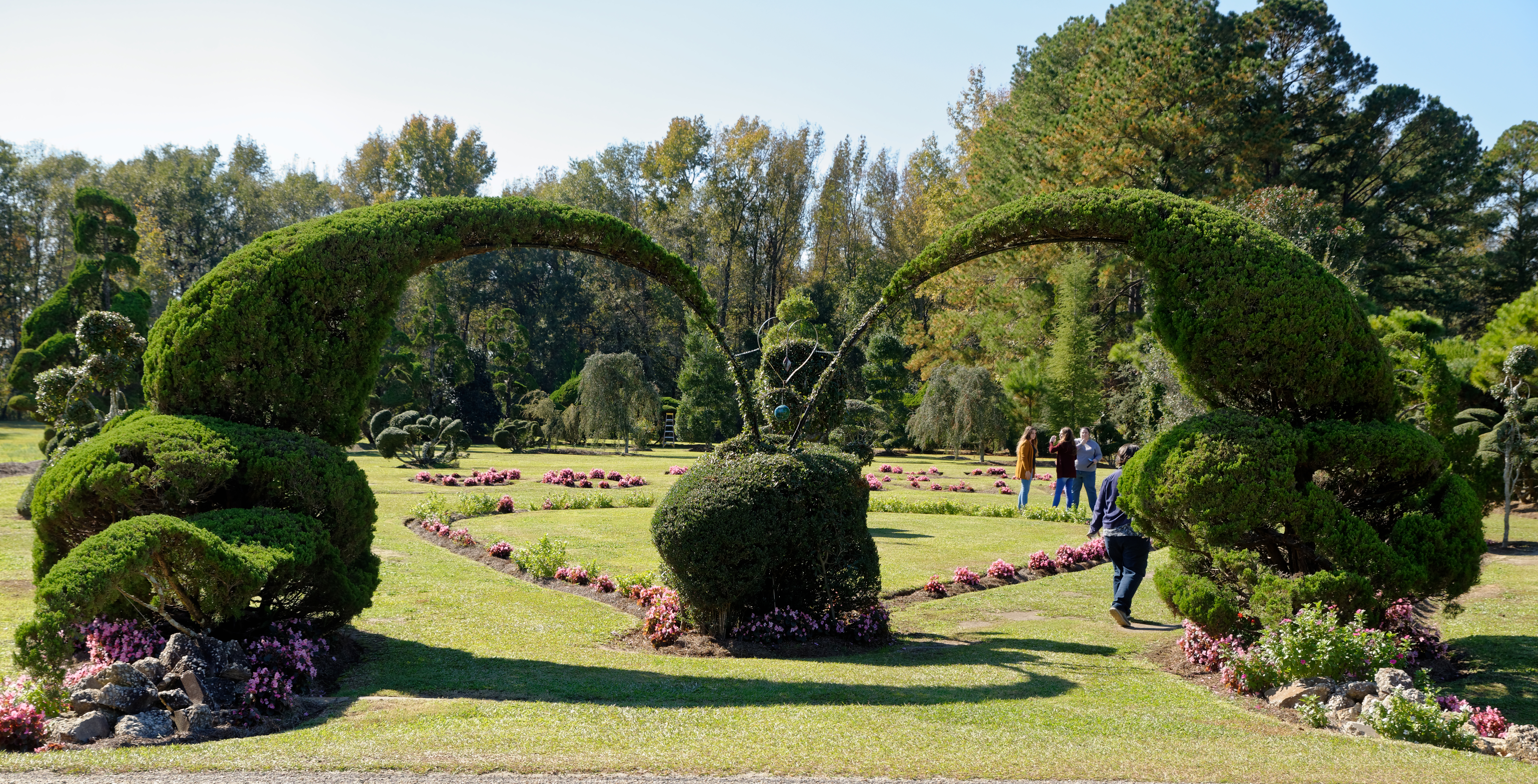 Topiary Garden by Pearl Fryar, Bishopville, South Carolina, U.S.